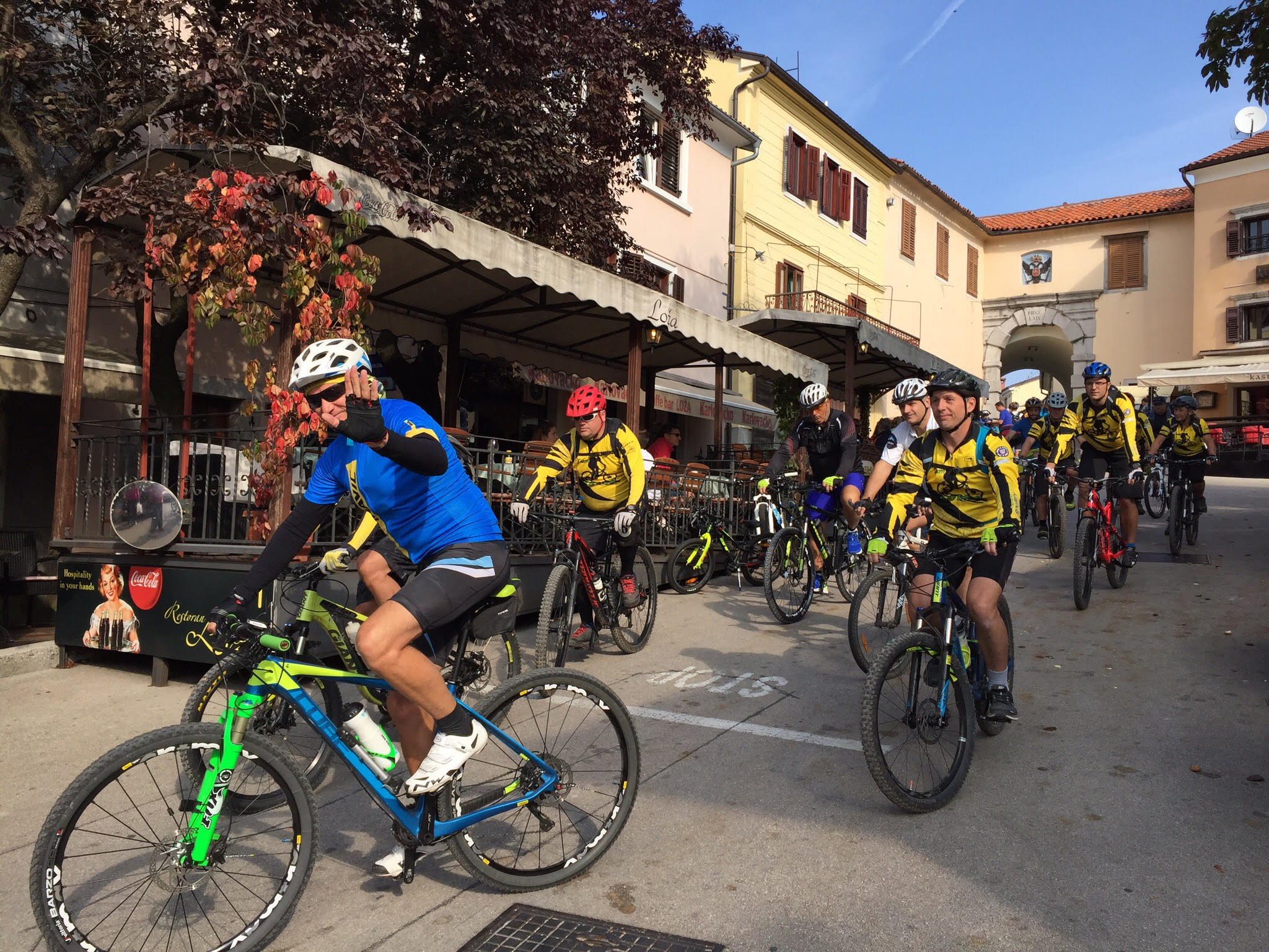 Bike race, Kastav